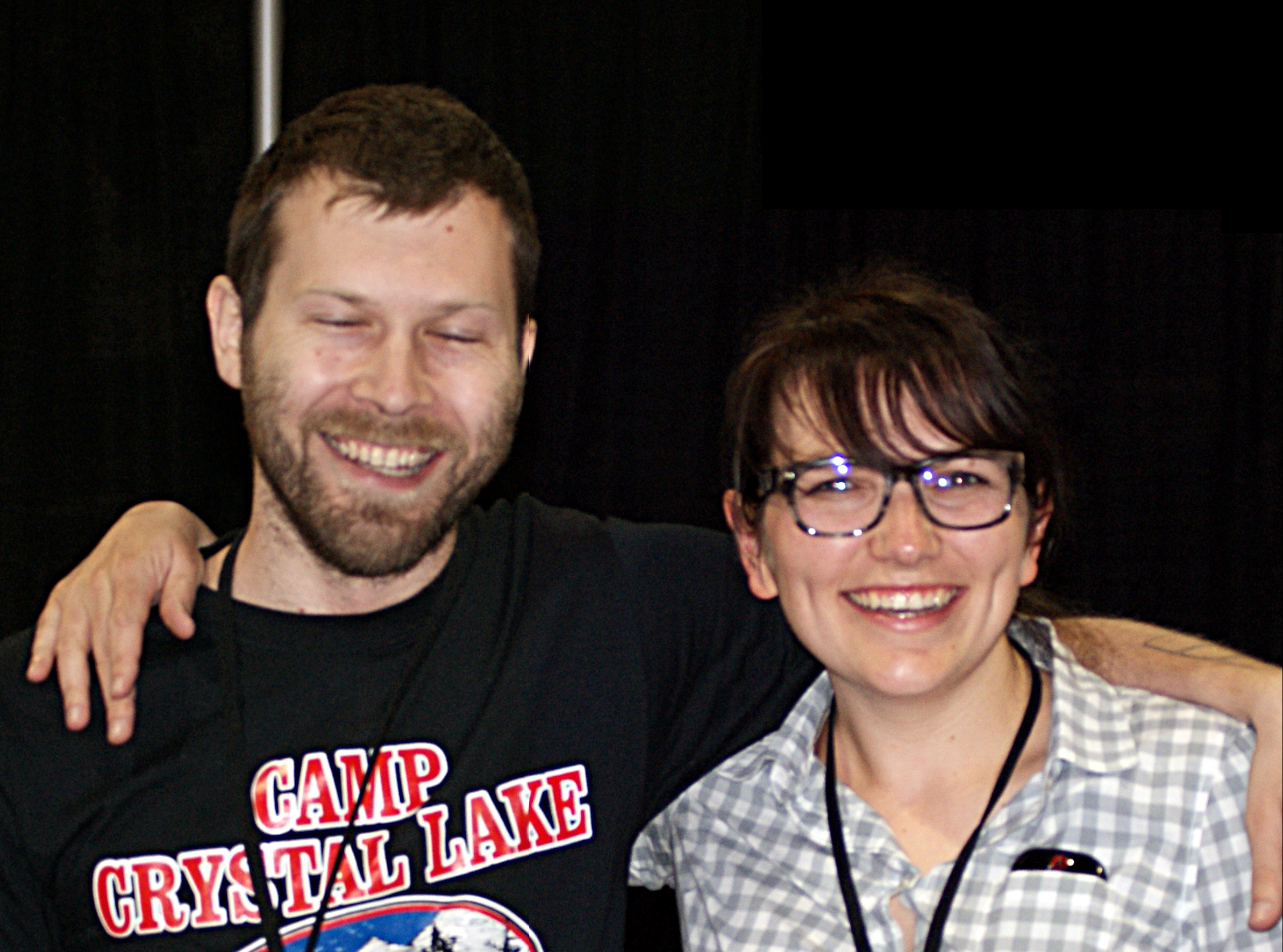 Joey Comeau (left) and Emily Horne (right) are the creators of A Softer World. These photos were taken at the Calgary Comic & Entertainment Expo (BMO Centre, Calgary, Alberta, Canada). This image is a combination of two other images in Wikimedia Commons, both by author 5of7 and both licensed under the Creative Commons Attribution-Share Alike 2.0 Generic license. This combination is a remix which gives credit and is similarly licensed.